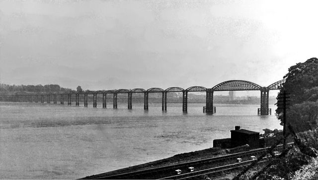 Severn Railway Bridge, from near Purton, Near to Sharpness, Gloucestershire, Great Britain. View SW, from beside Gloucester - Chepstow - Severn Tunnel Junction line on right bank of the Severn Estuary, in 1948 - long before the Bridge was closed and dismantled after a large petrol-tanker barge struck one of the central piers on the foggy night of 25/10/60. The Severn & Wye Joint (ex-Great Western & Midland) Berkeley Road - Lydney line was thereby curtailed to the Berkeley Road - Sharpness section and this lost its passenger service on 2/11/64.